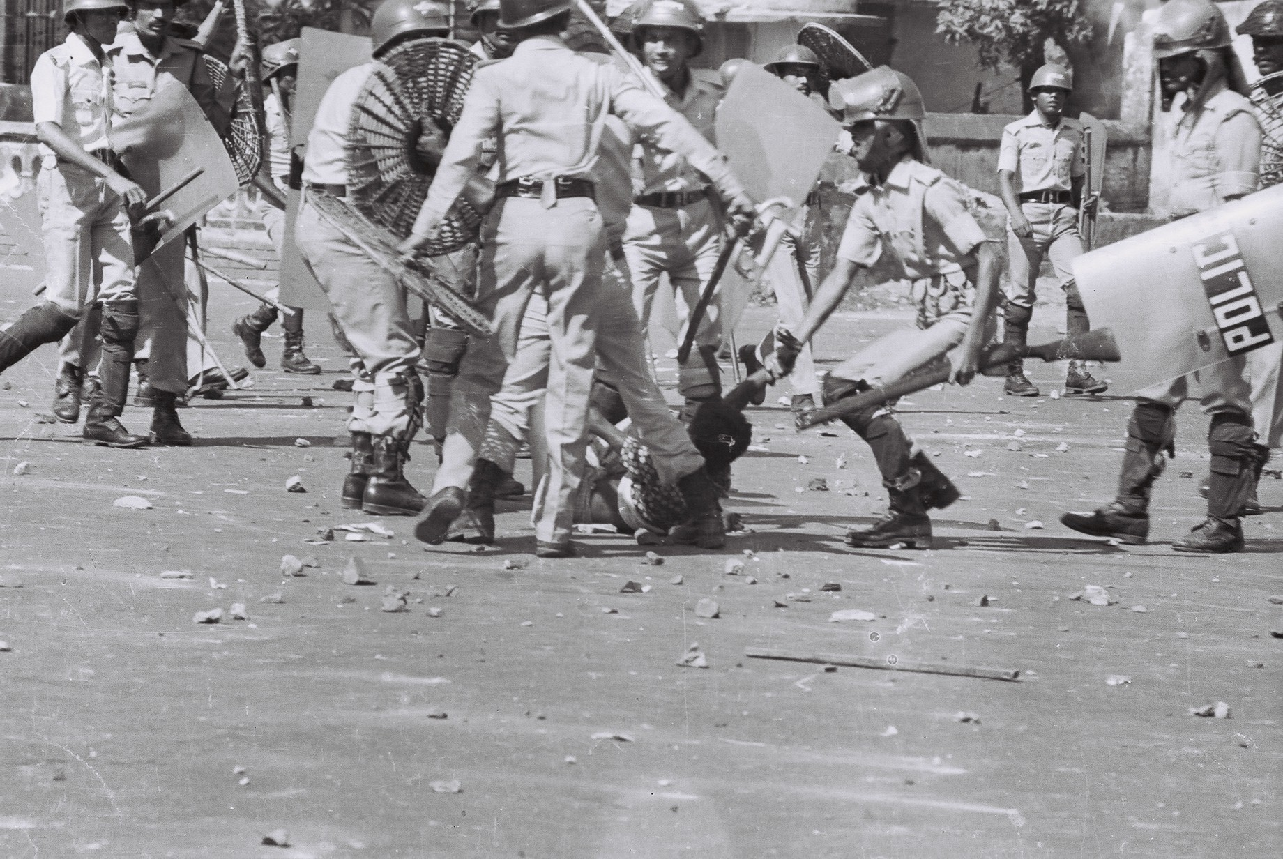 10 November 1987 protest for democracy in Dhaka. Noor Hossain & Two others died in the firing on Nov 10, 1987. One of the bodies carried by Bangladesh Police.